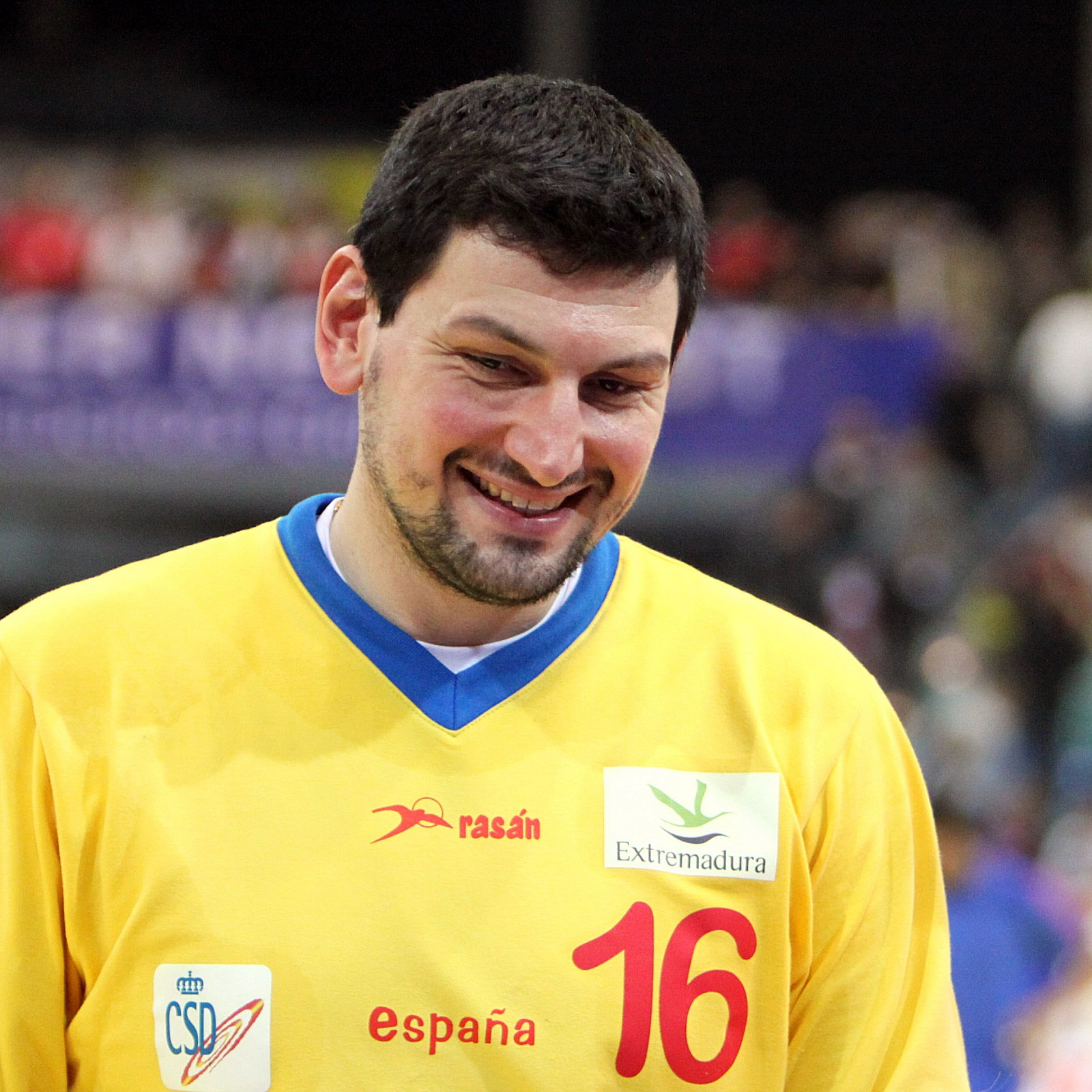 Arpad Šterbik (BM Ciudad Real), Spain national handball team